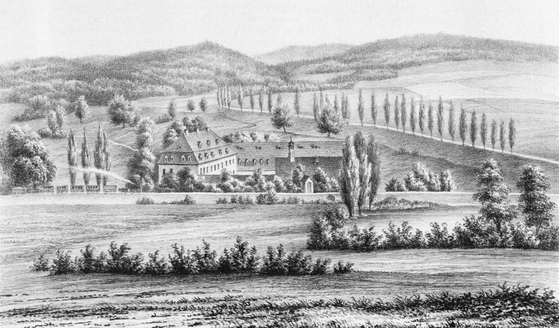 Rittergut Klösterlein, Aue, Saxony.